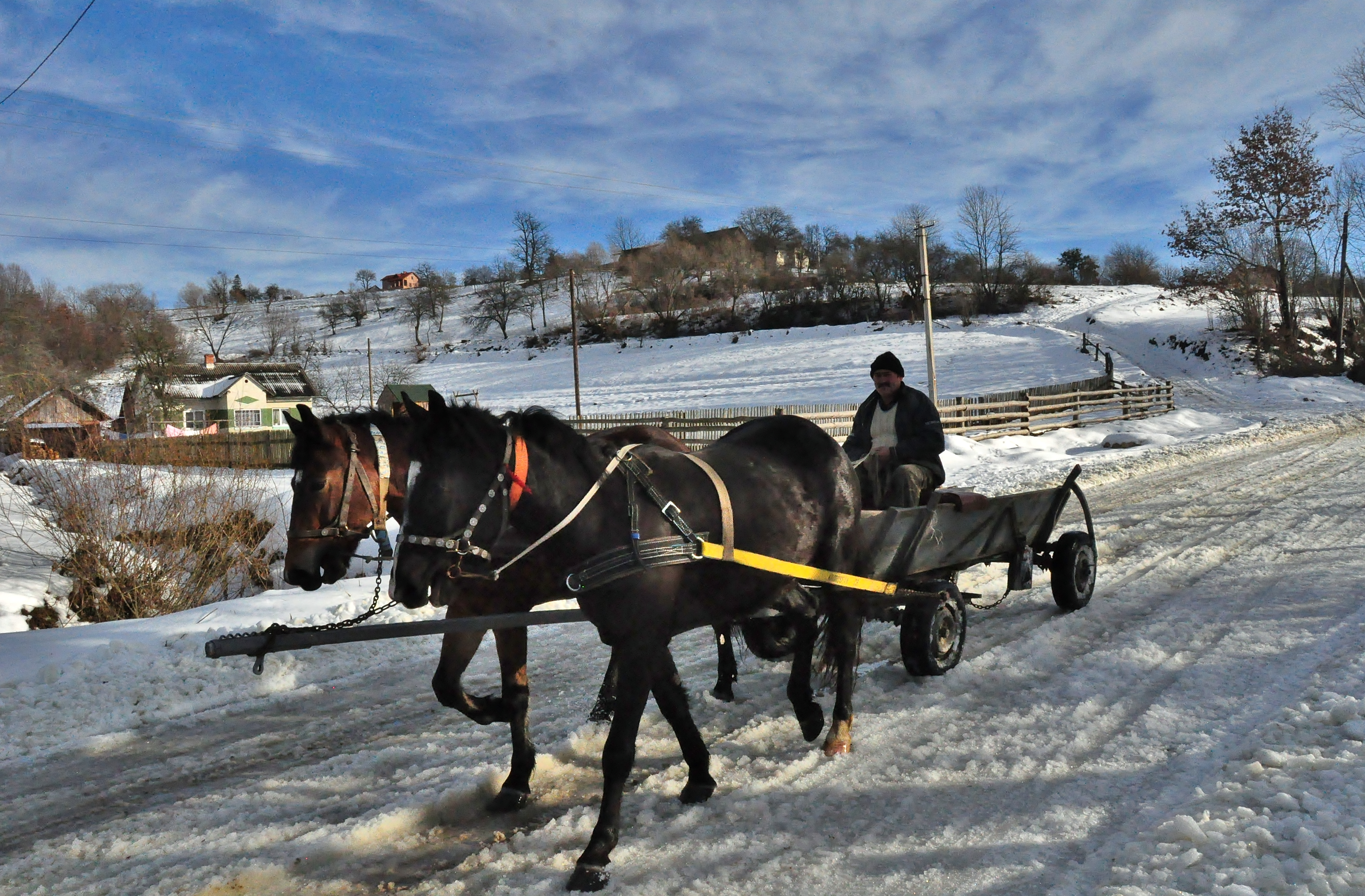 Horse wagon in Poliana village, Mykolaiv Raion Lviv Oblast.